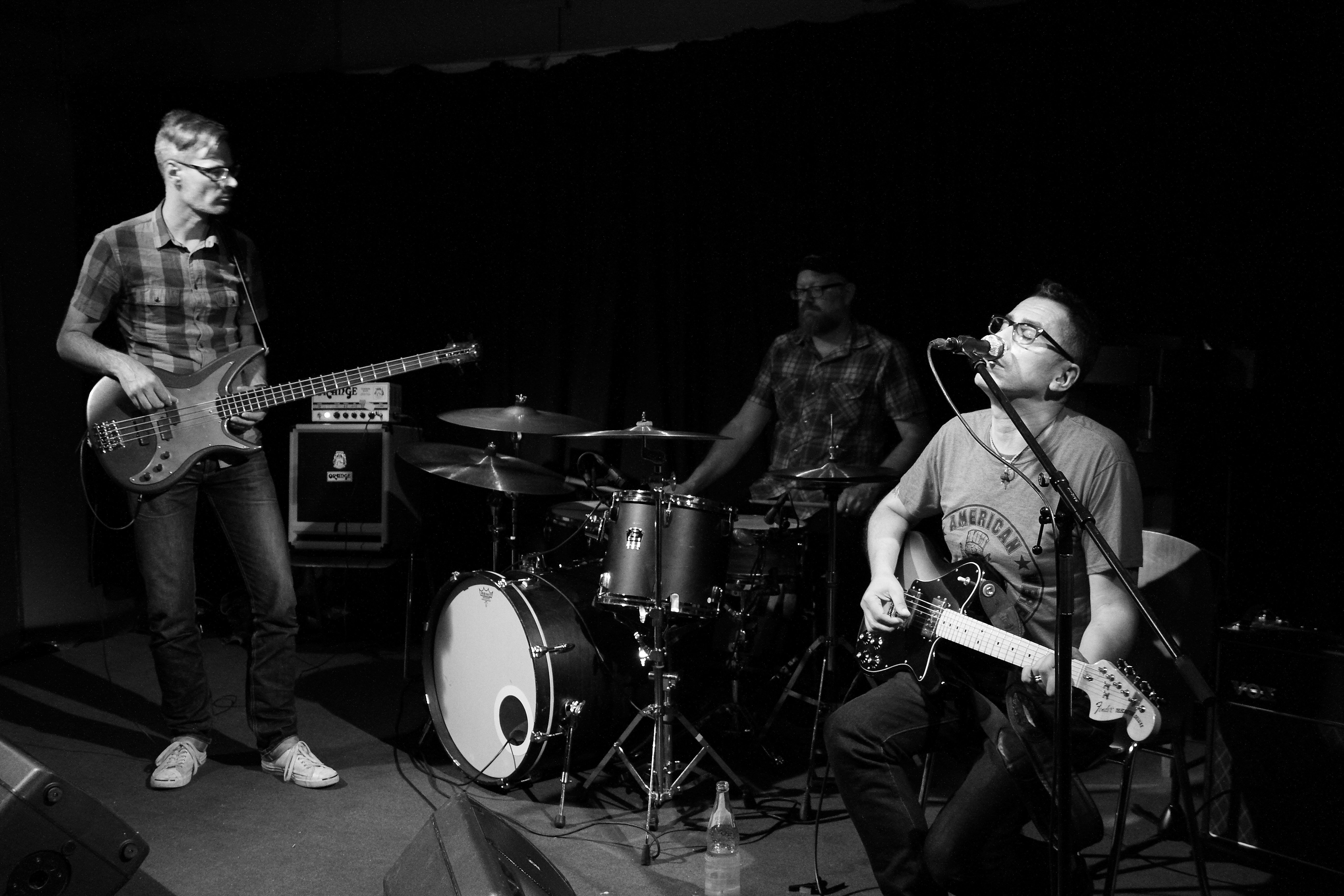 Joel RL Phelbs & The Downer Trio at Club W71, Weikersheim.